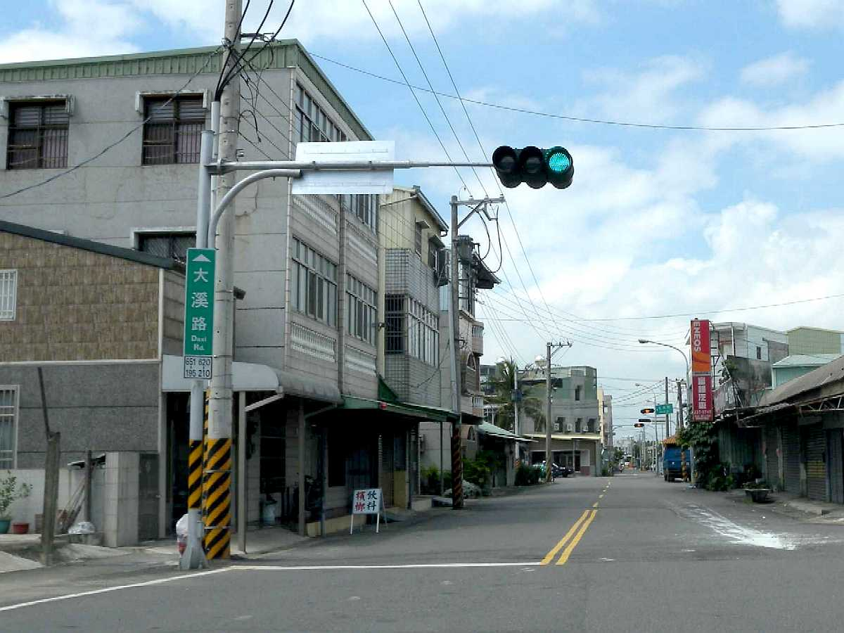 Daxi Village